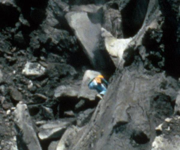 Tight crop of original photograph, which was a view from a helicopter of David Johnston near crest of the bulge on the north side of Mount St. Helens, sampling gases from fumaroles. David is near the center of both this picture and the original picture. Skamania County, Washington. May 17, 1980.